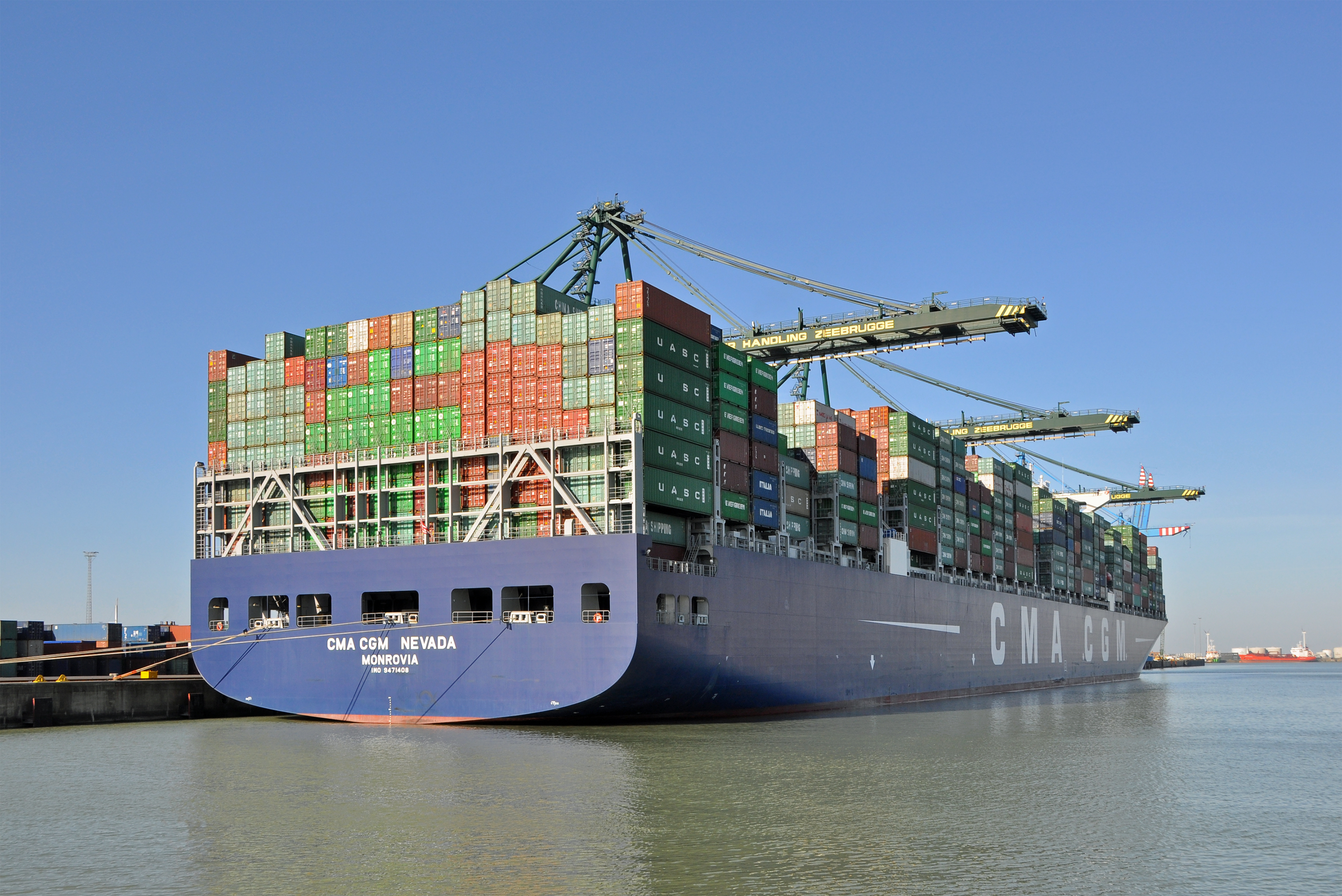 Container ship CMA CGM Nevada in the port of Zeebrugge (Belgium)